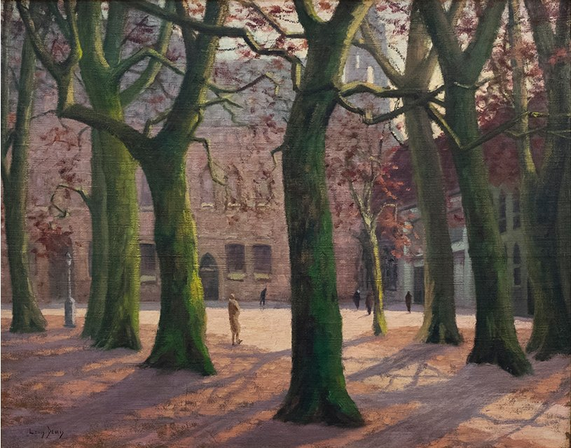 The Beguinage at Bruges by Louis Dewis, 1920, oil on canvas, 31 ½ in x 39 in.